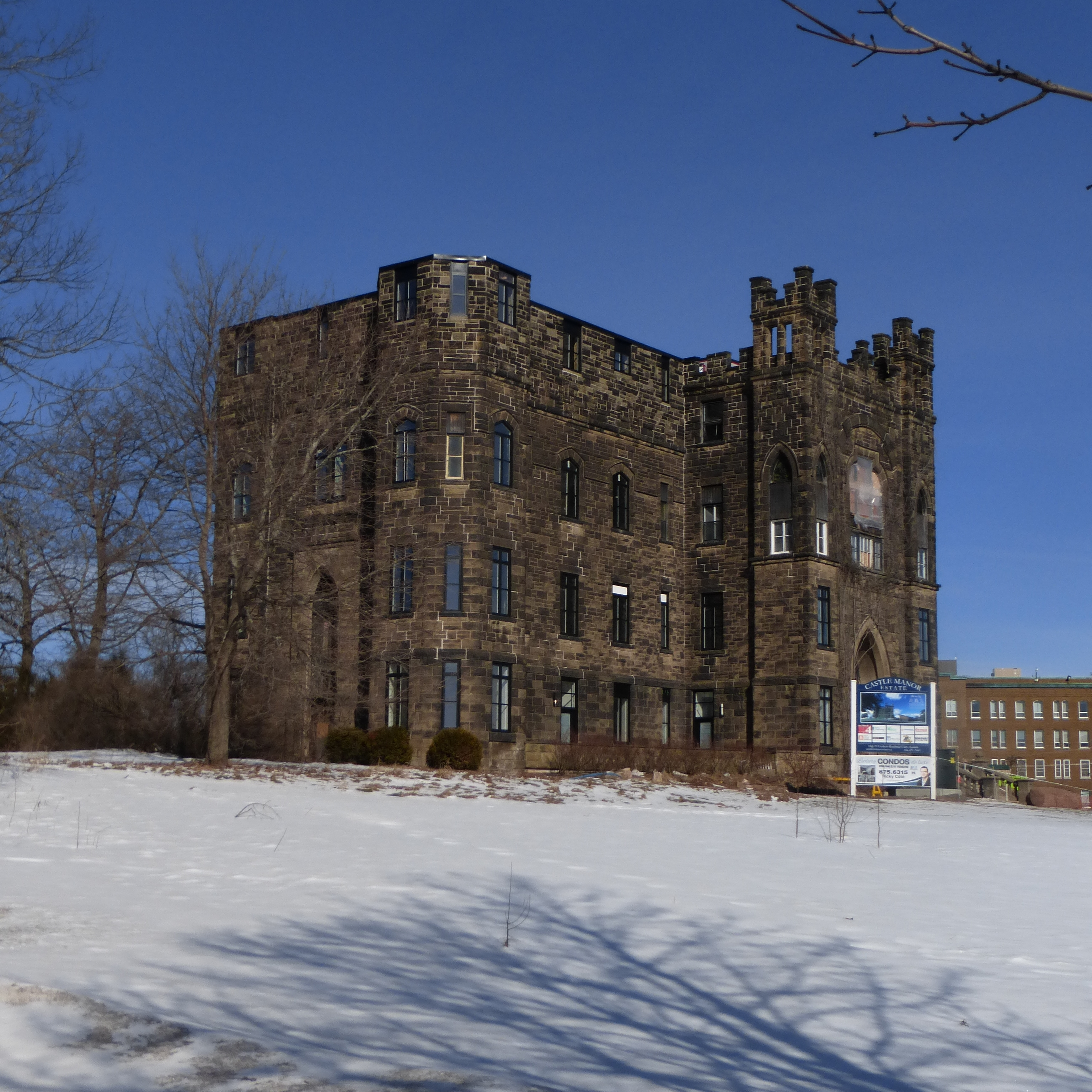 The Late Gothic Mary's Home, Moncton, New Brunswick, later Alcorn Manor. Designed by René Arthur Fréchet and completed in 1914.